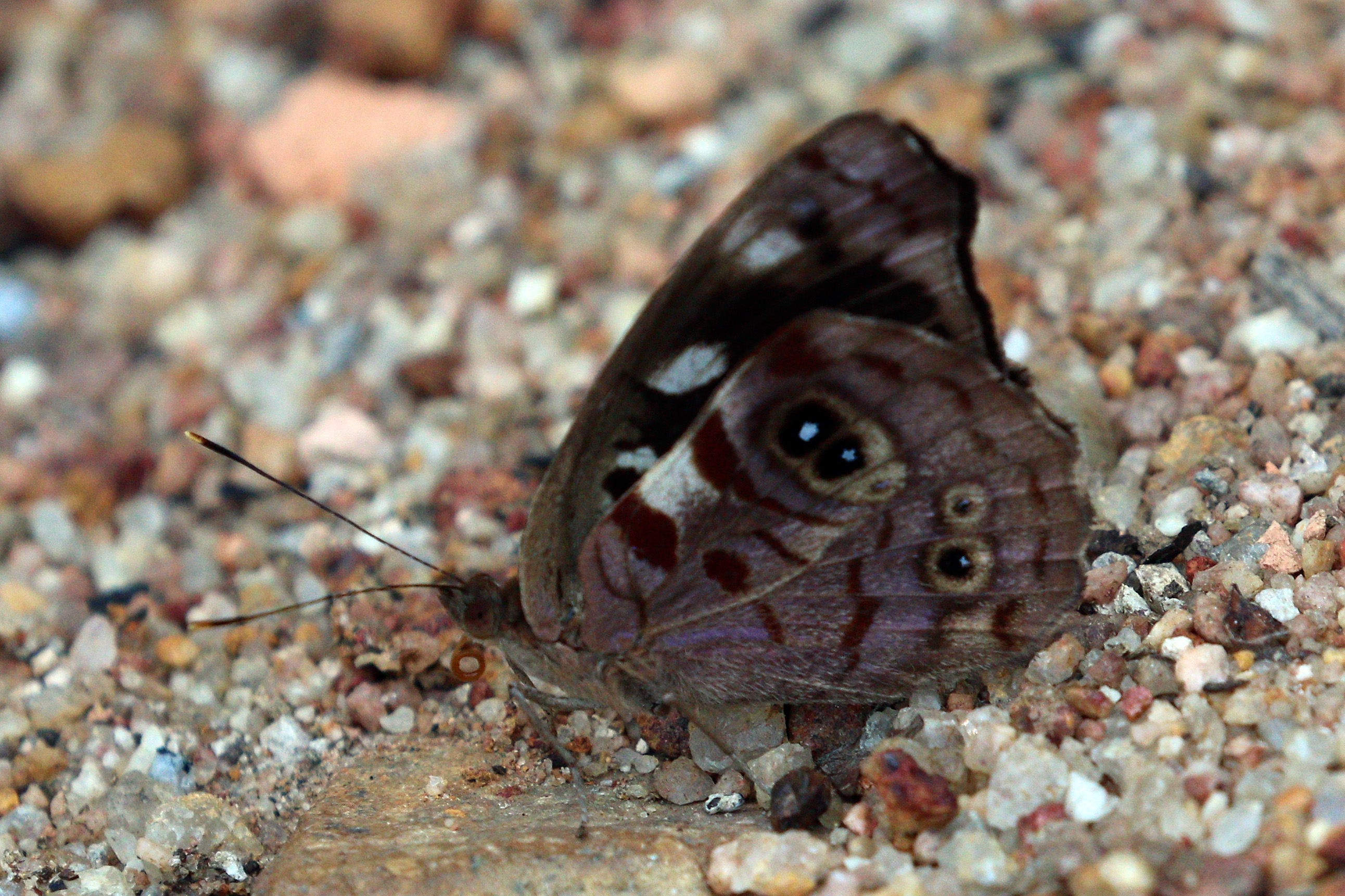 Concordia, or Sandbar, purplewing (Eunica concordia), Cristalino River, Southern Amazon, Brazil